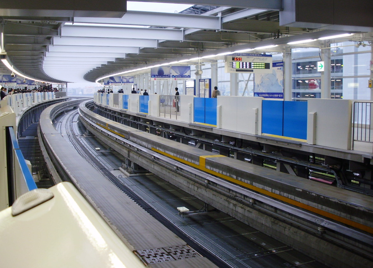 Tokyo Monorail Haneda Airport International Terminal Station